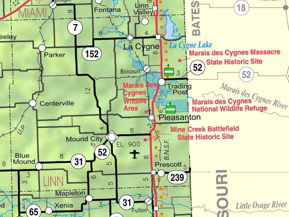 This map of Linn County, Kansas, USA, is copied at a resolution of 300 pixels/inch from the original PDF file.